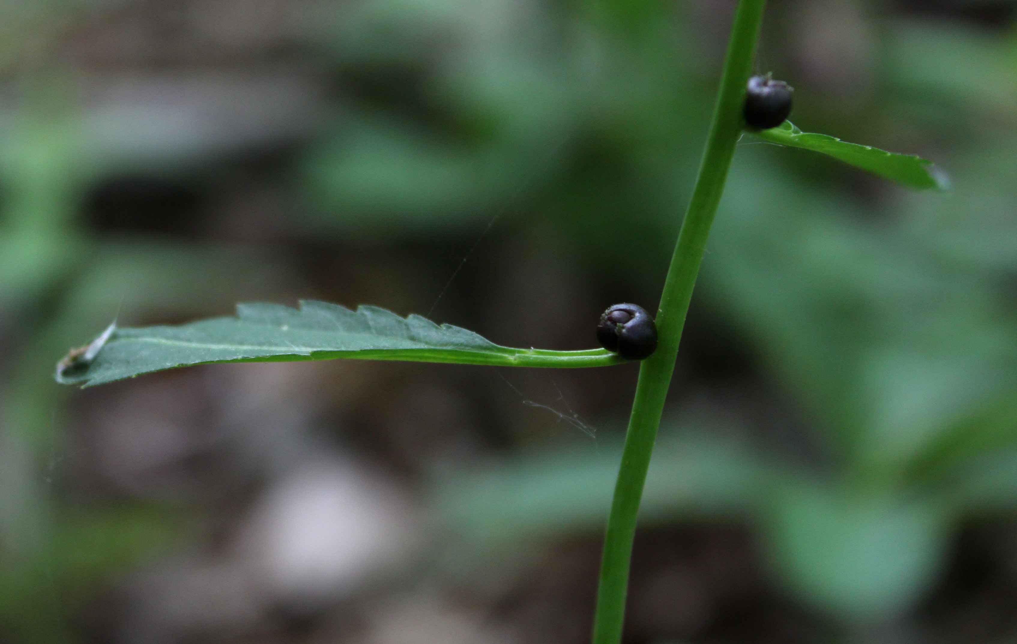 Bulbilli of Dentaria bulbifera (sing. bulbillus), Locality: Loděnice, Beroun, Czech Rep.